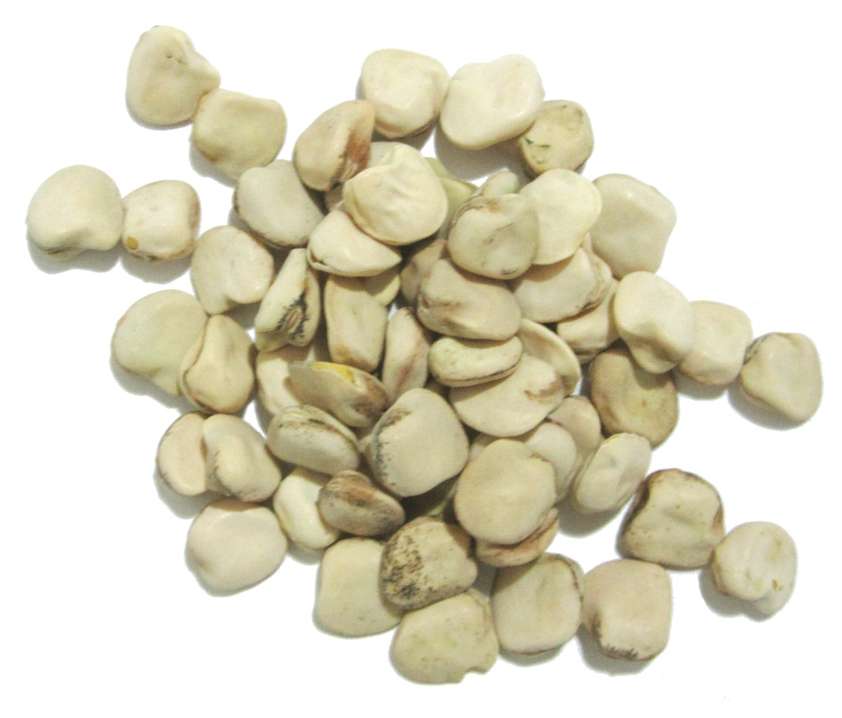 Dried Lathyrus sativus seeds from Molise (Italy)